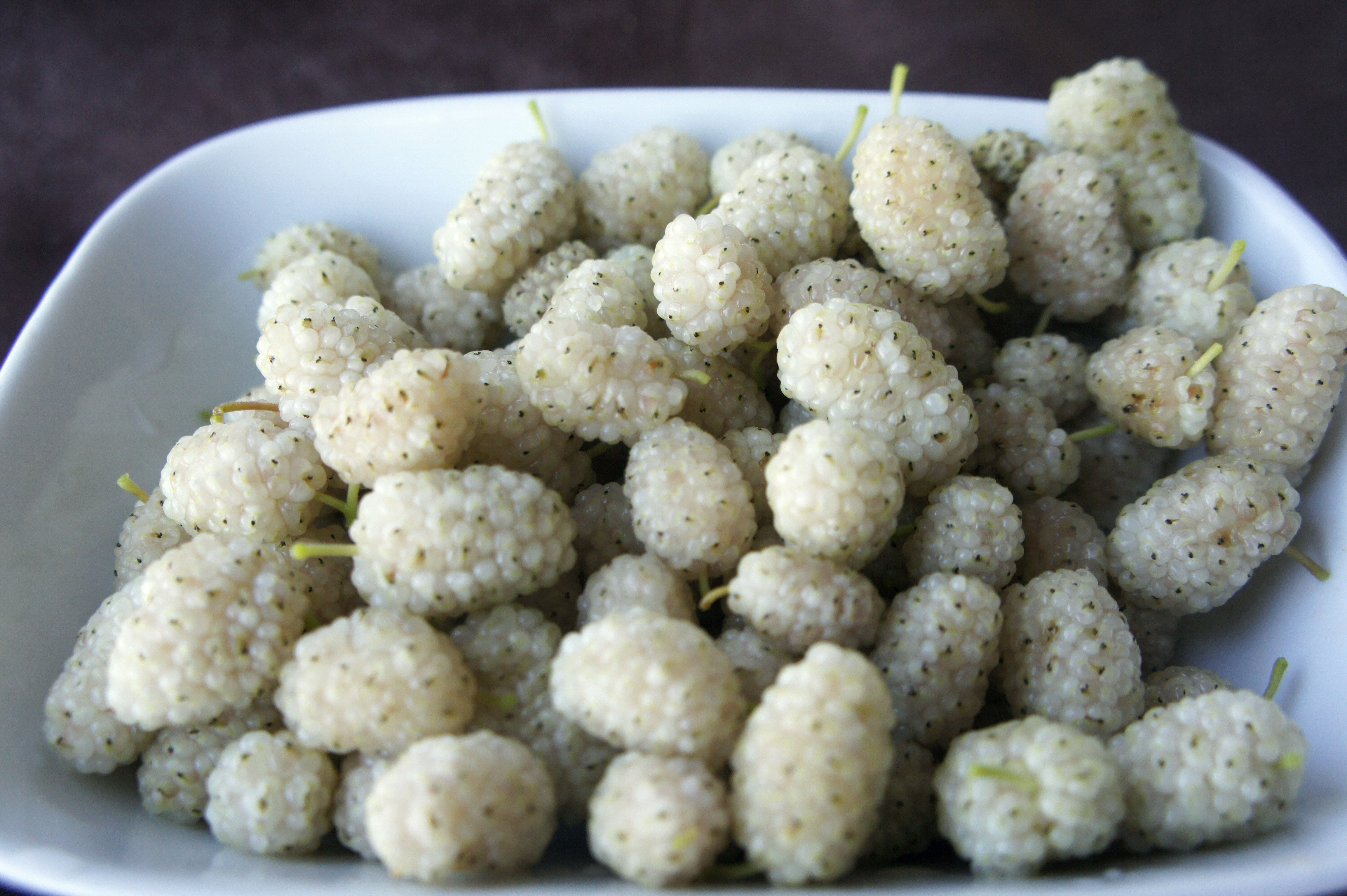 White mulberry, Diyarbakır (in Kurdish: Amed), Turkey Kurdî: Tûya spî, Amed, Kurdistan.